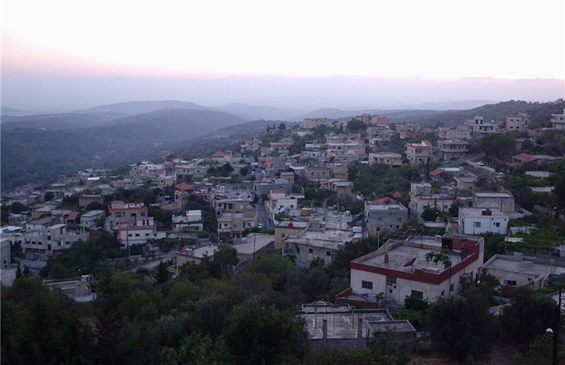 A resized photo of the town of Zweitina in Syria.